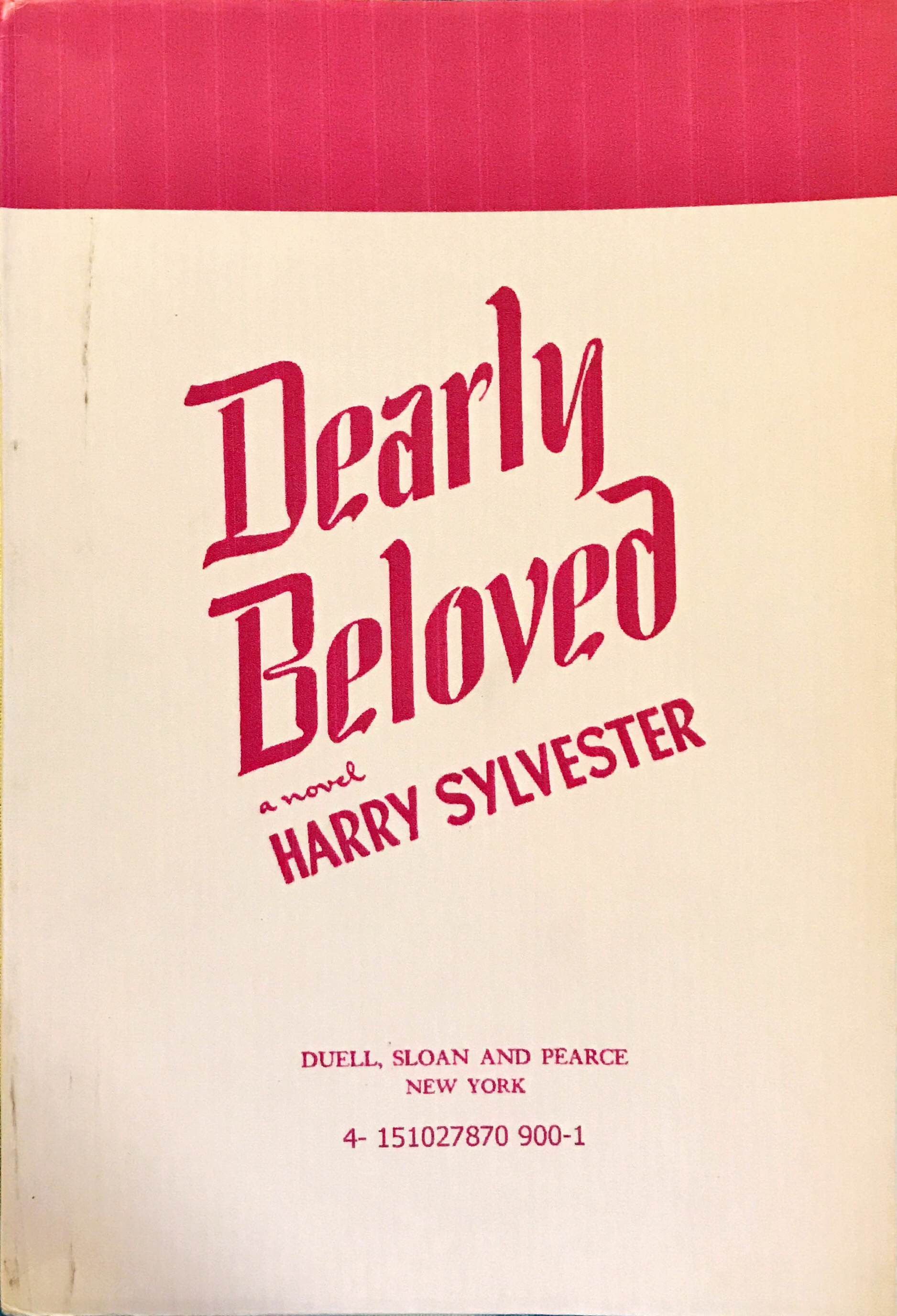 The first edition of Dearly Beloved published in 1942 by Duell, Sloan, and Pearce.